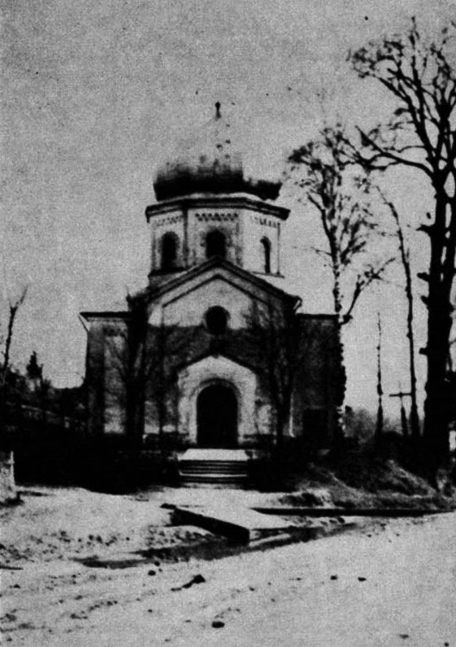 Intercession of the Theotokos Church in Pawłokoma. Built in 1909, destroyed in 1945